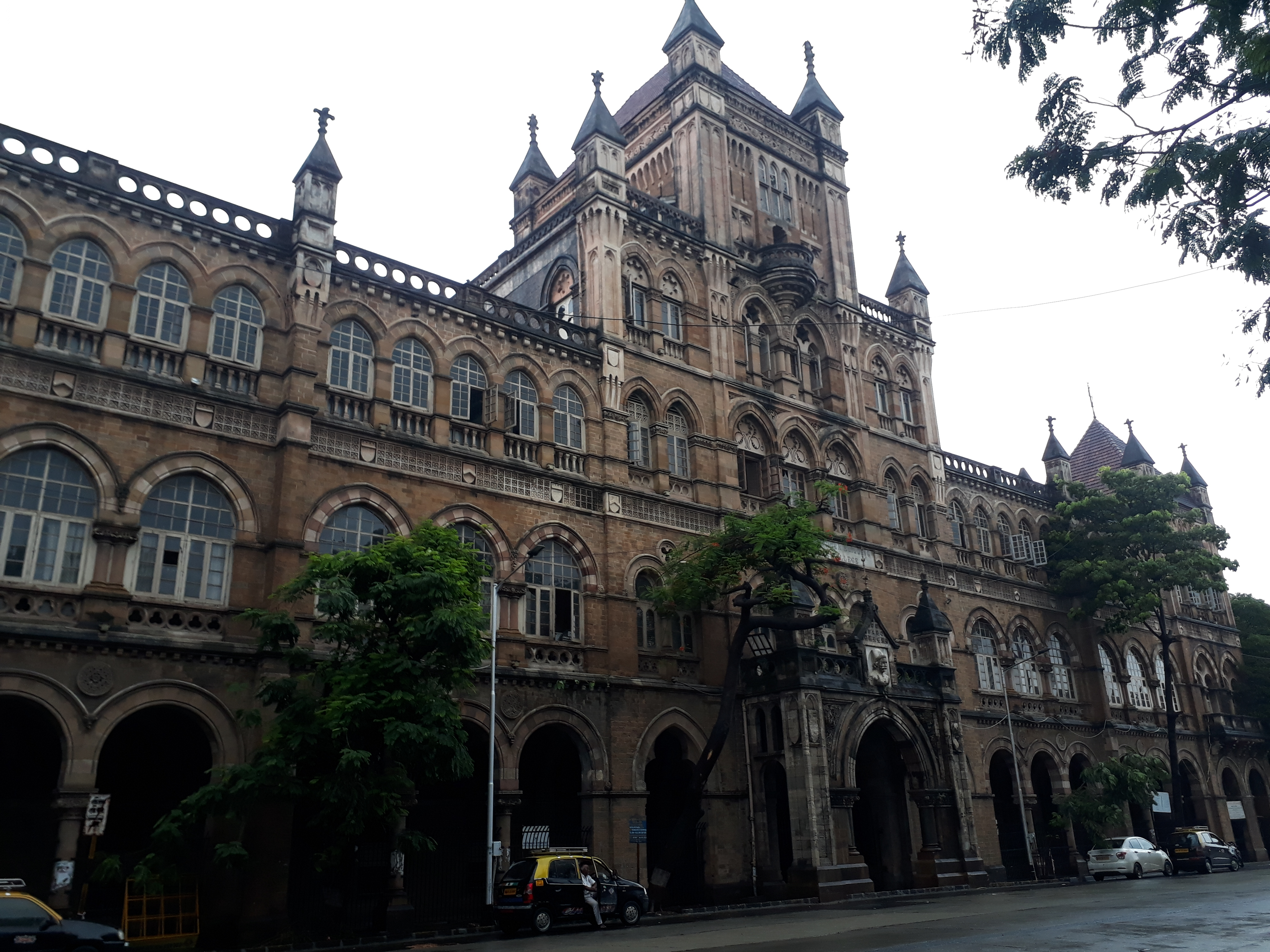 Elphinstone College, One of the oldest College in Mumbai